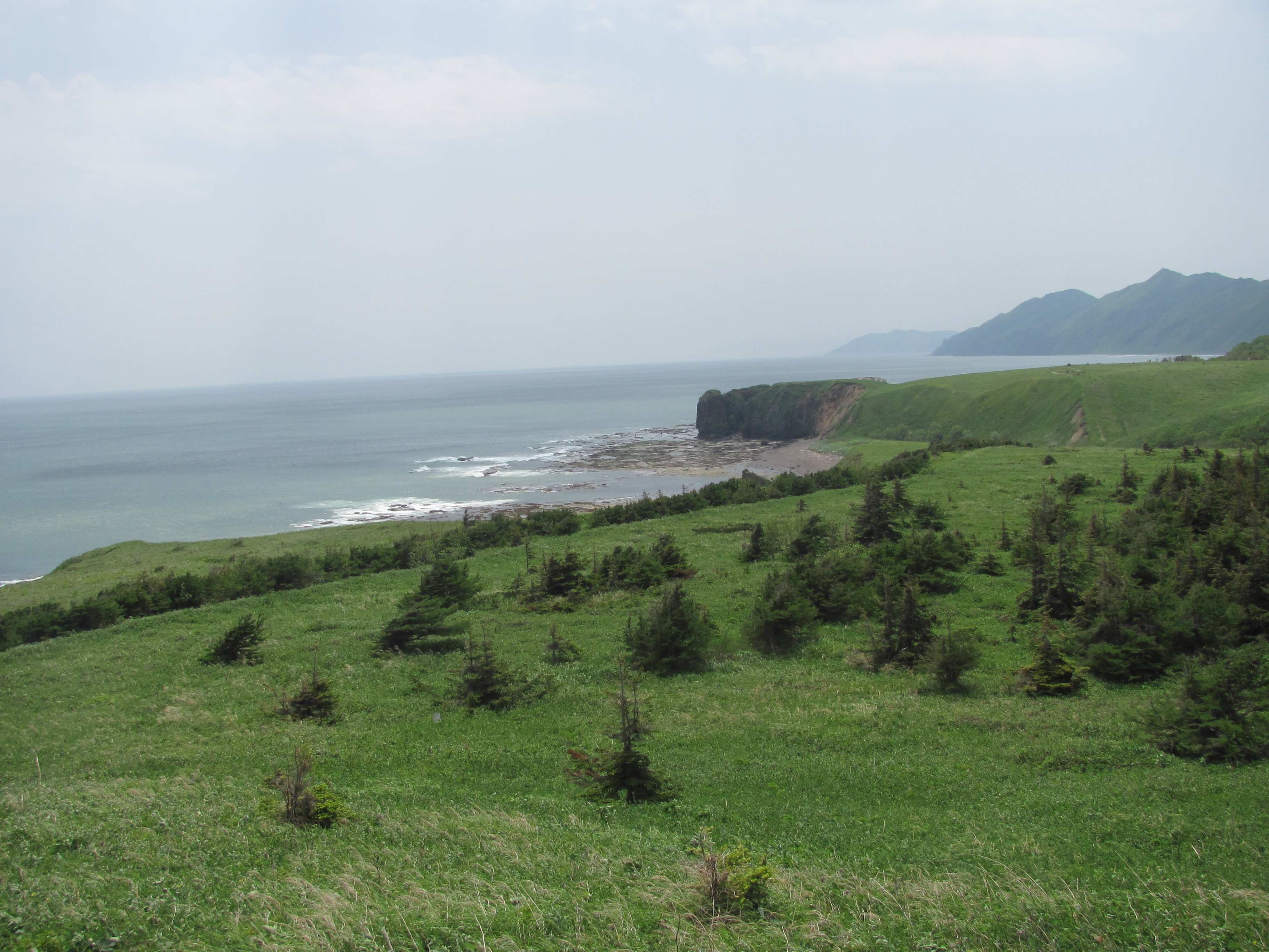 Cape "Tihii" ("calm" or "silent"). Sakhalin island coast on the Sea of Okhotsk.